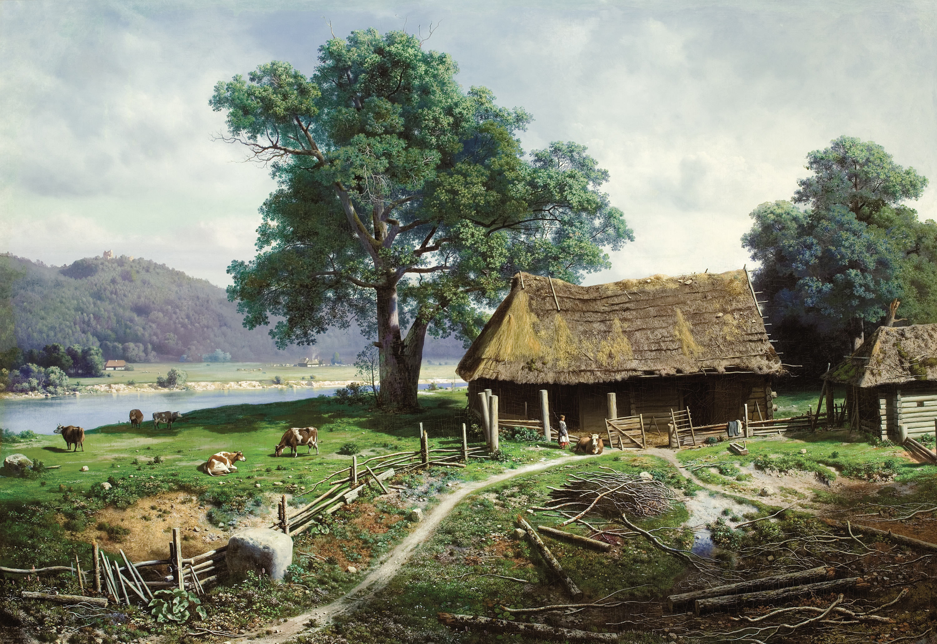 Mikhail Clodt (1832-1902) Riverside Farmstead